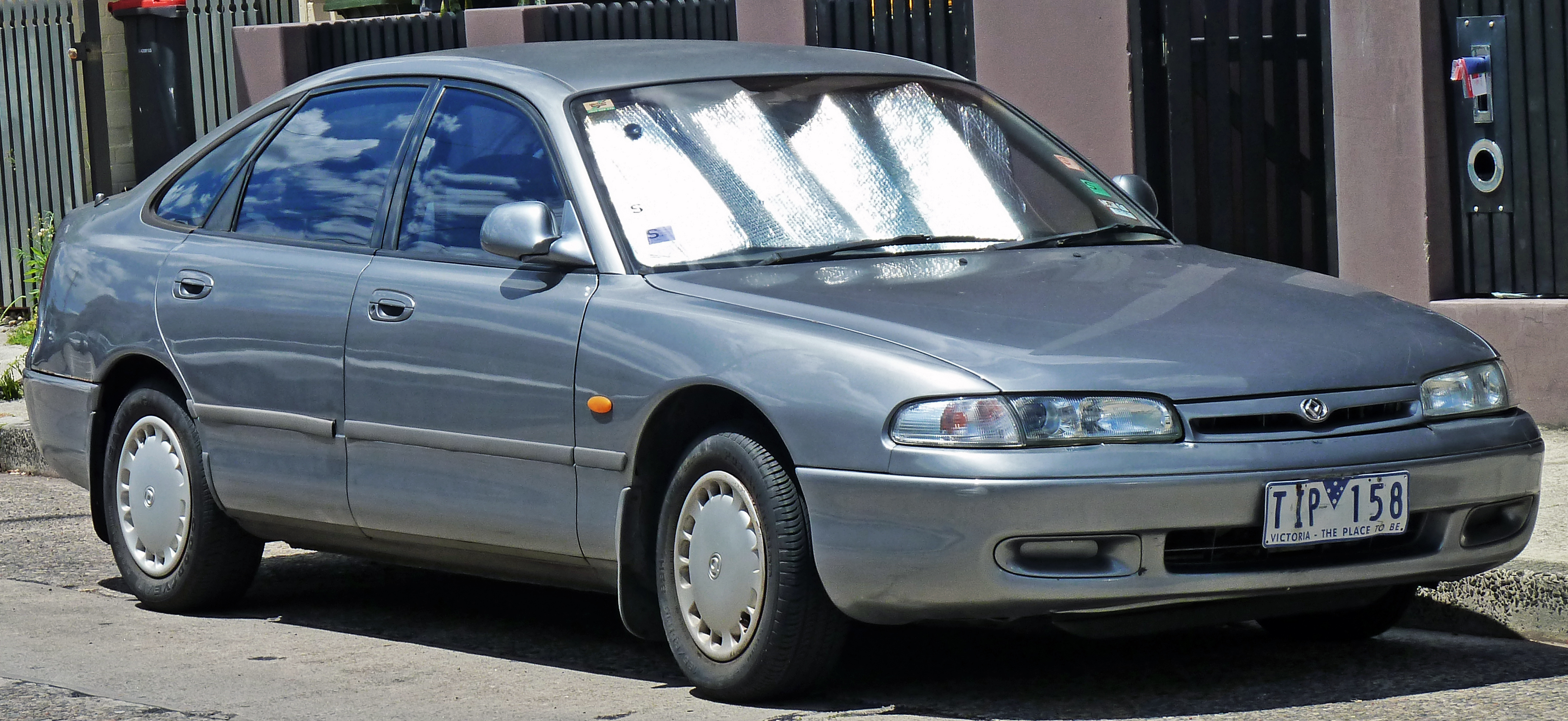 1992 Mazda 626 (GE) 2.0 hatchback. Photographed in Newtown, New South Wales, Australia. Vehicle registration enquiry results Jurisdiction Victoria Registration TIP158 Chassis code JM0GE10S100120416 Engine code FS372565 Compliance date 1993-01 Year of manufacture 1992